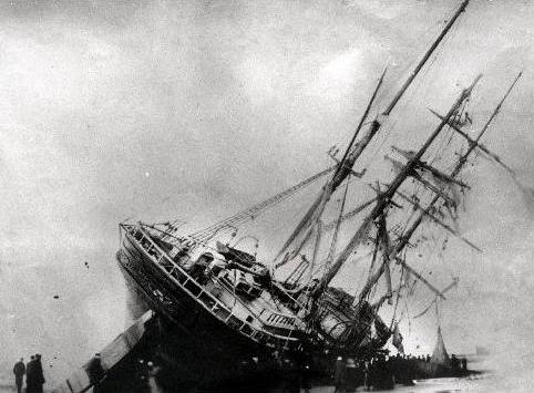 Wreck of the barque Abana